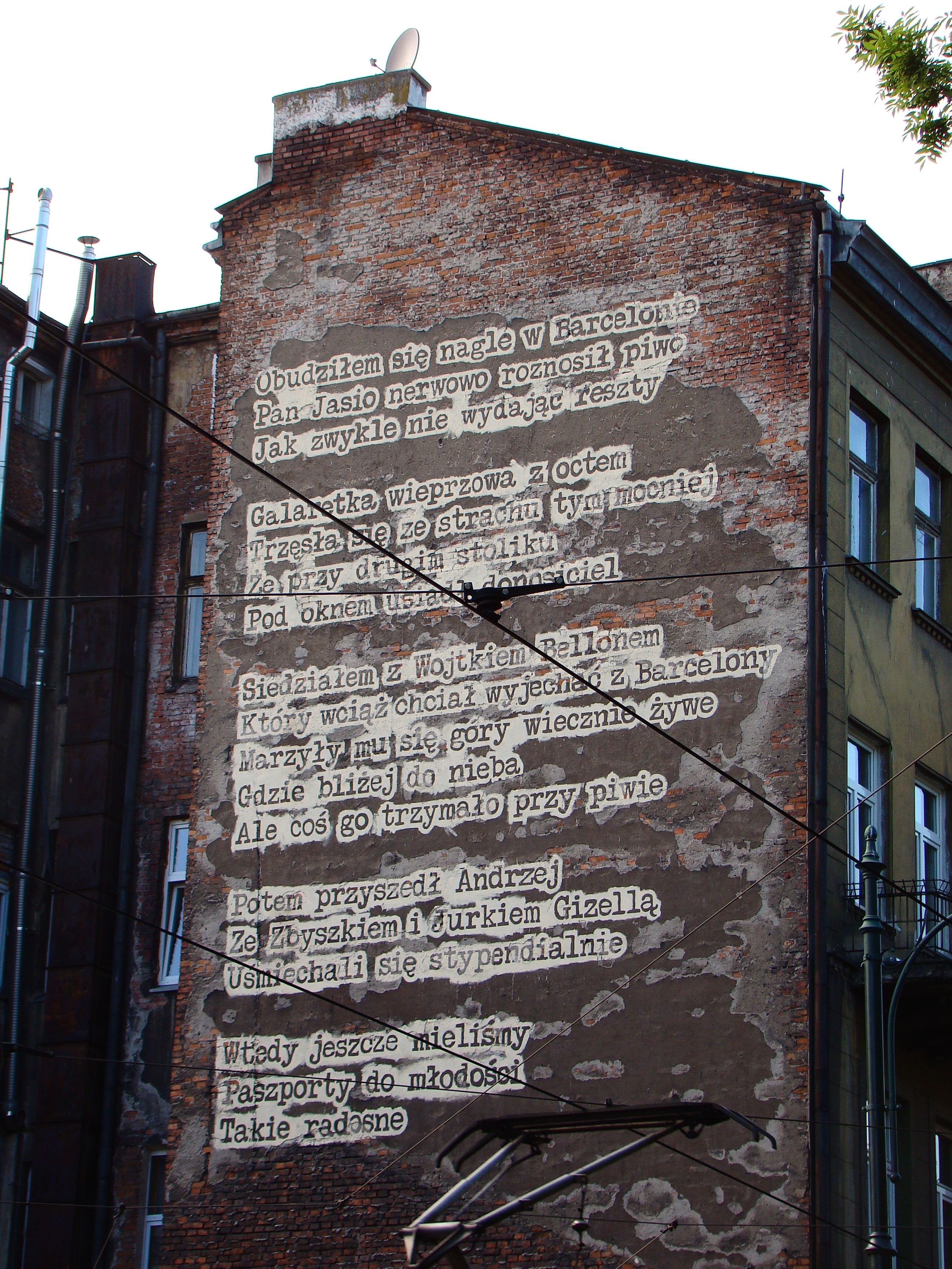 Mural of poem "Barcelona" written by Adam Ziemianin, corner of Floriana Straszewskiego street and Józefa Piłsudskiego street, Kraków